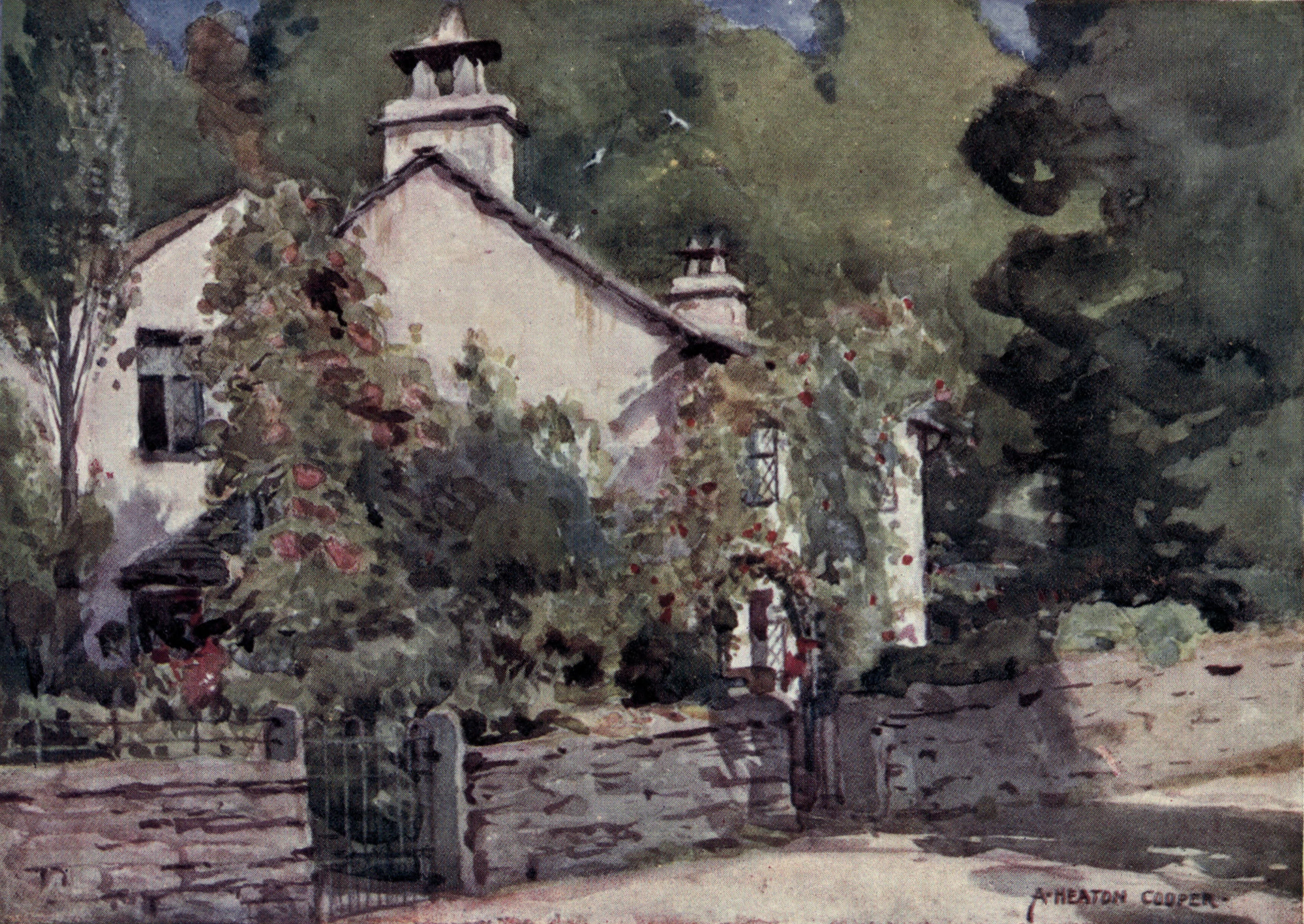 "Dove Cottage, Grasmere", painted by A. Heaton Cooper.